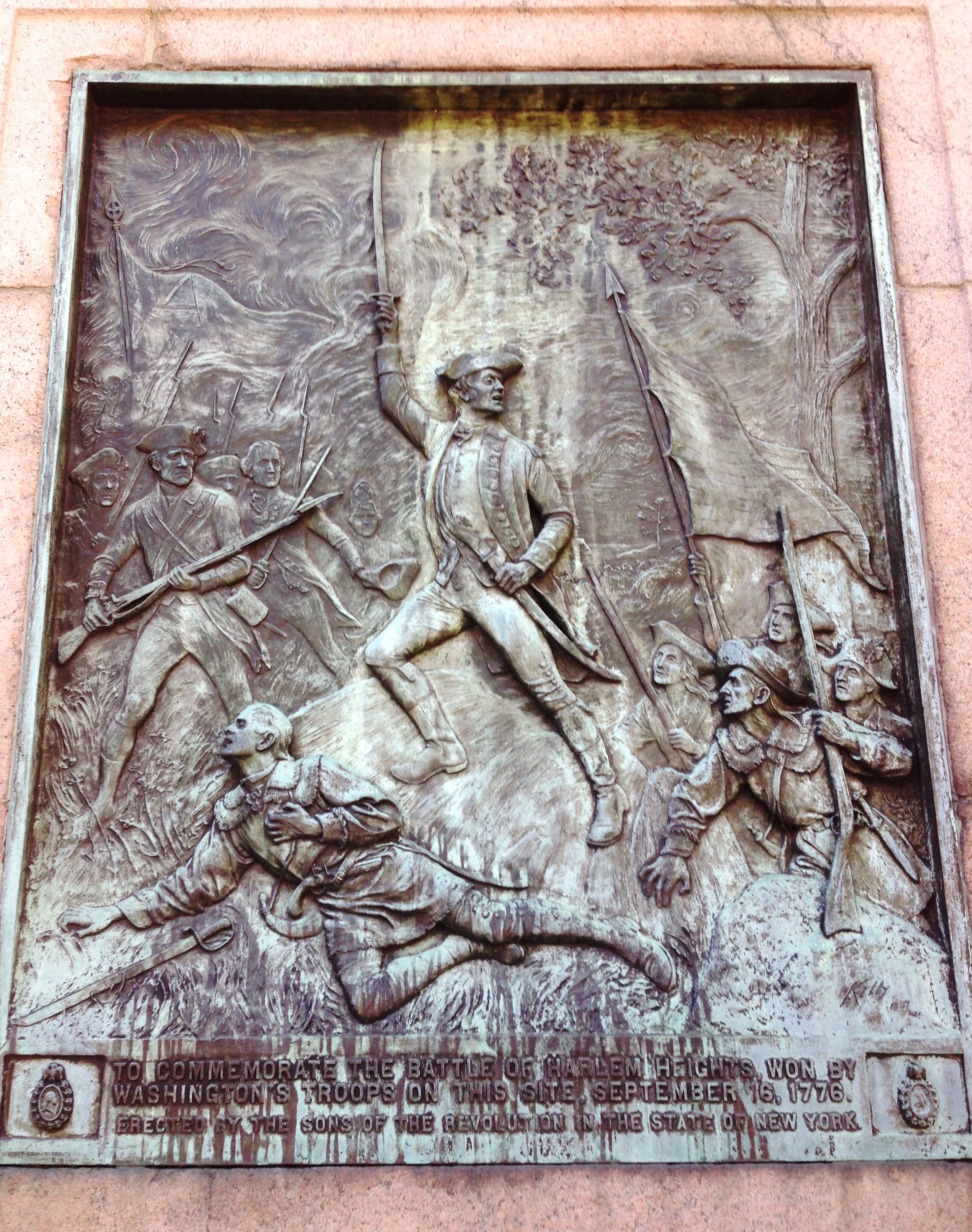 A plaque commemorating the Battle of Harlem Heights in the American Revolutionary War, which took place on September 16, 1776. The battle was won by Washington's troops. The plaque is located on the outside wall of Columbia University's Department of Mathematics building, at Broadway near where West 117th Street would be located. The plaque was erected by the Sons of the Revolution in the State of New York. The battle primarily took place around West 120th Street.